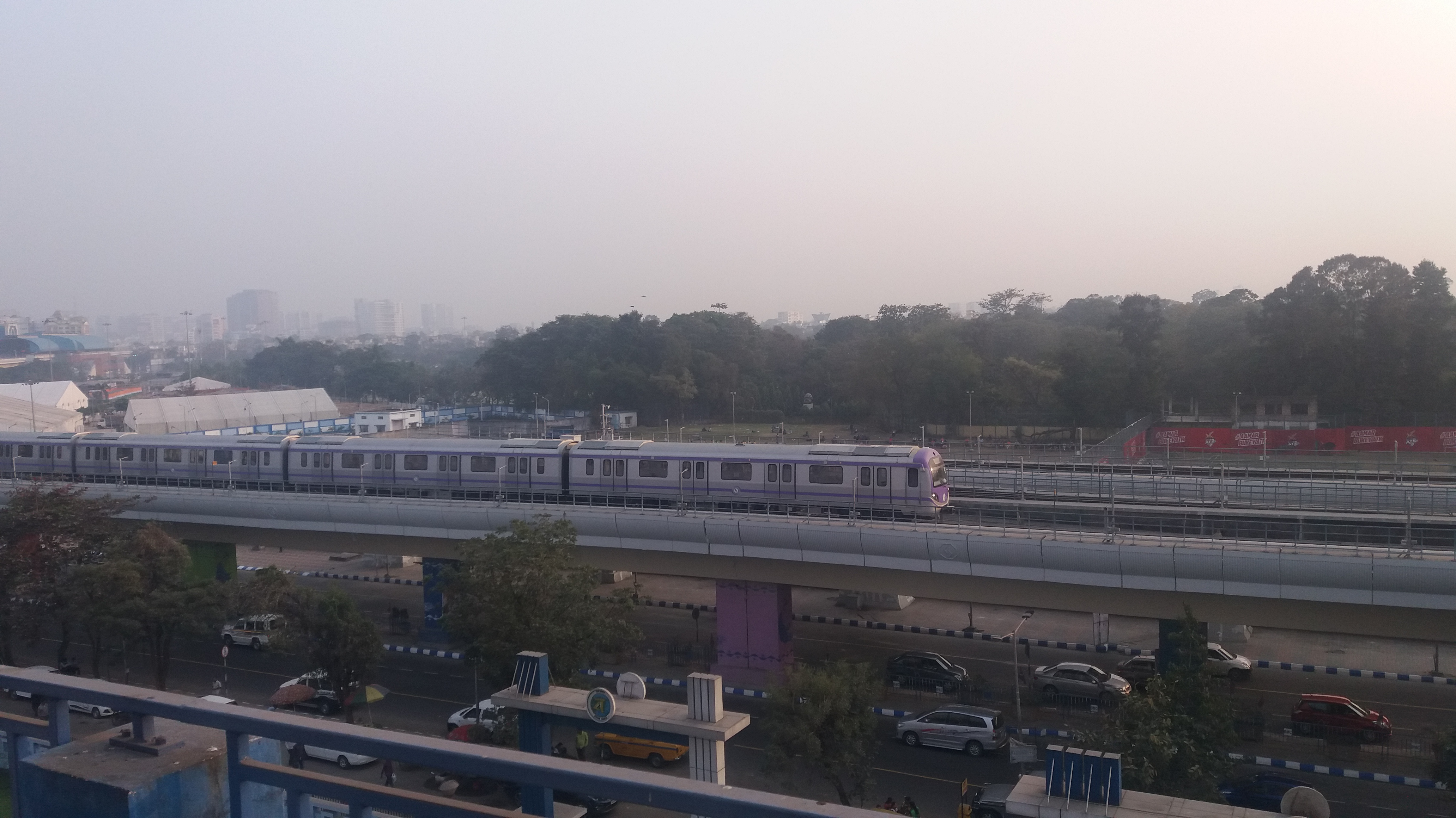 Cenreal park metro Station. Train trail (Kolkata Metro Line 2) in Kolkata.